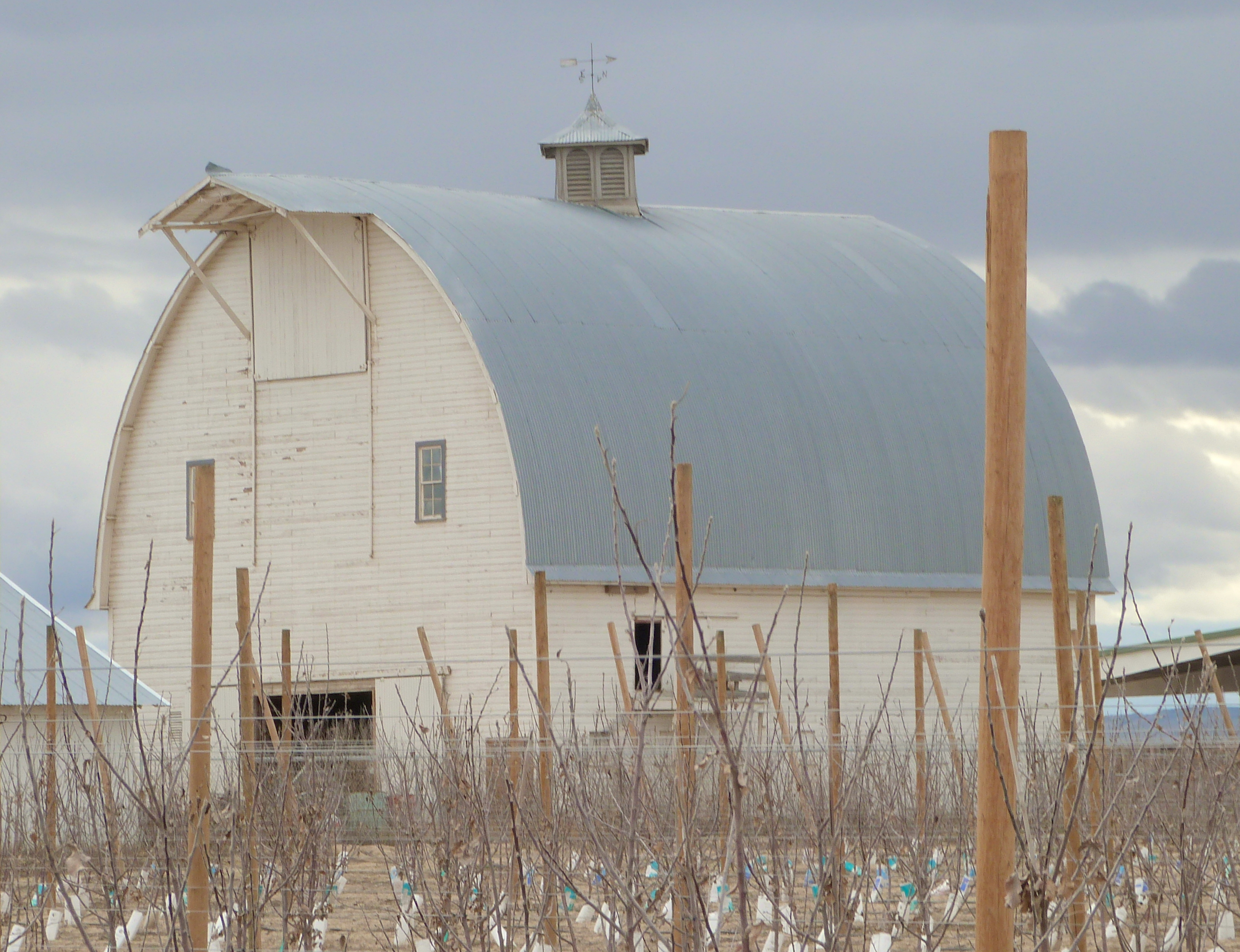 The historic George Obendorf Gothic Arch Truss Barn (built 1915), located at 24047 Batt Corner Road near Wilder, Idaho, United States, is listed on the US National Register of Historic Places.